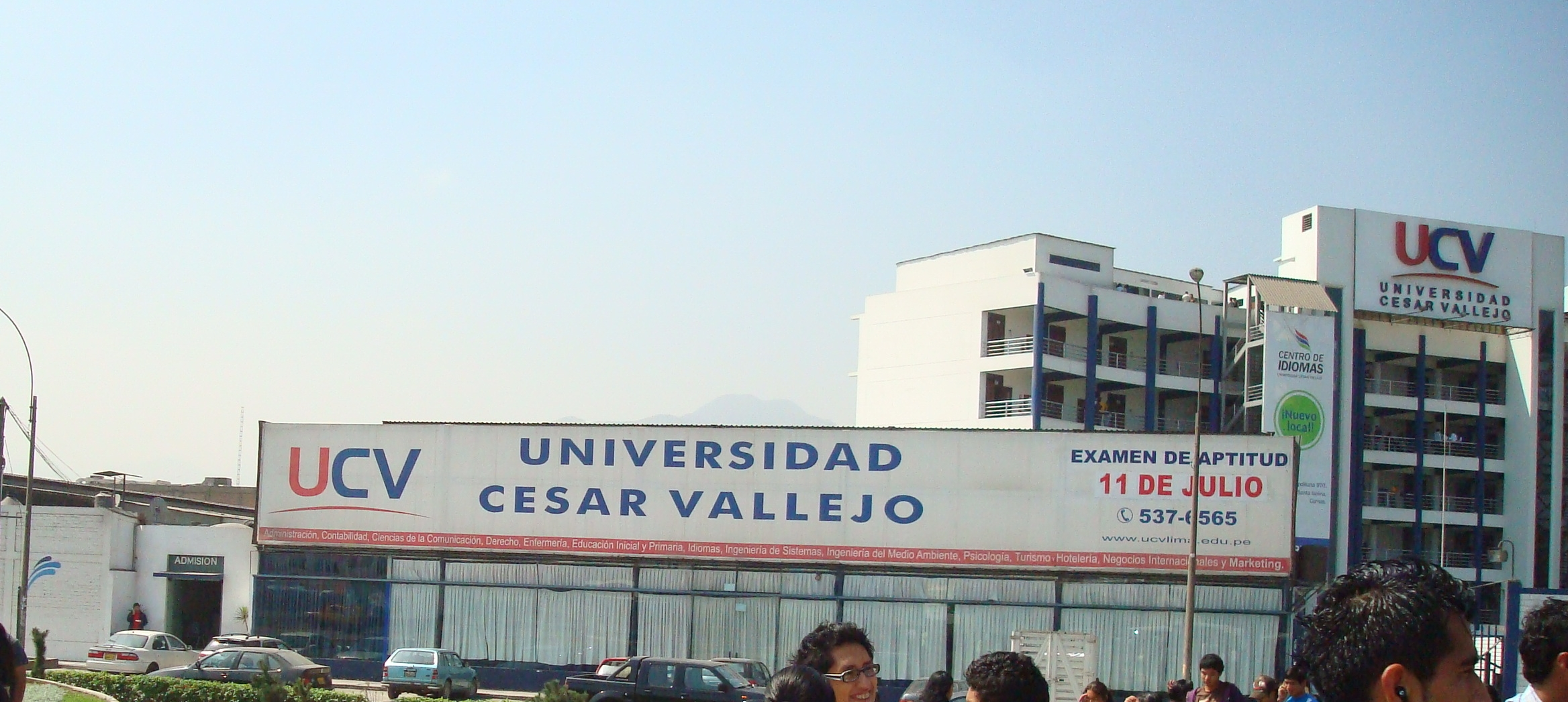 University Cesar Vallejo in Lima Peru